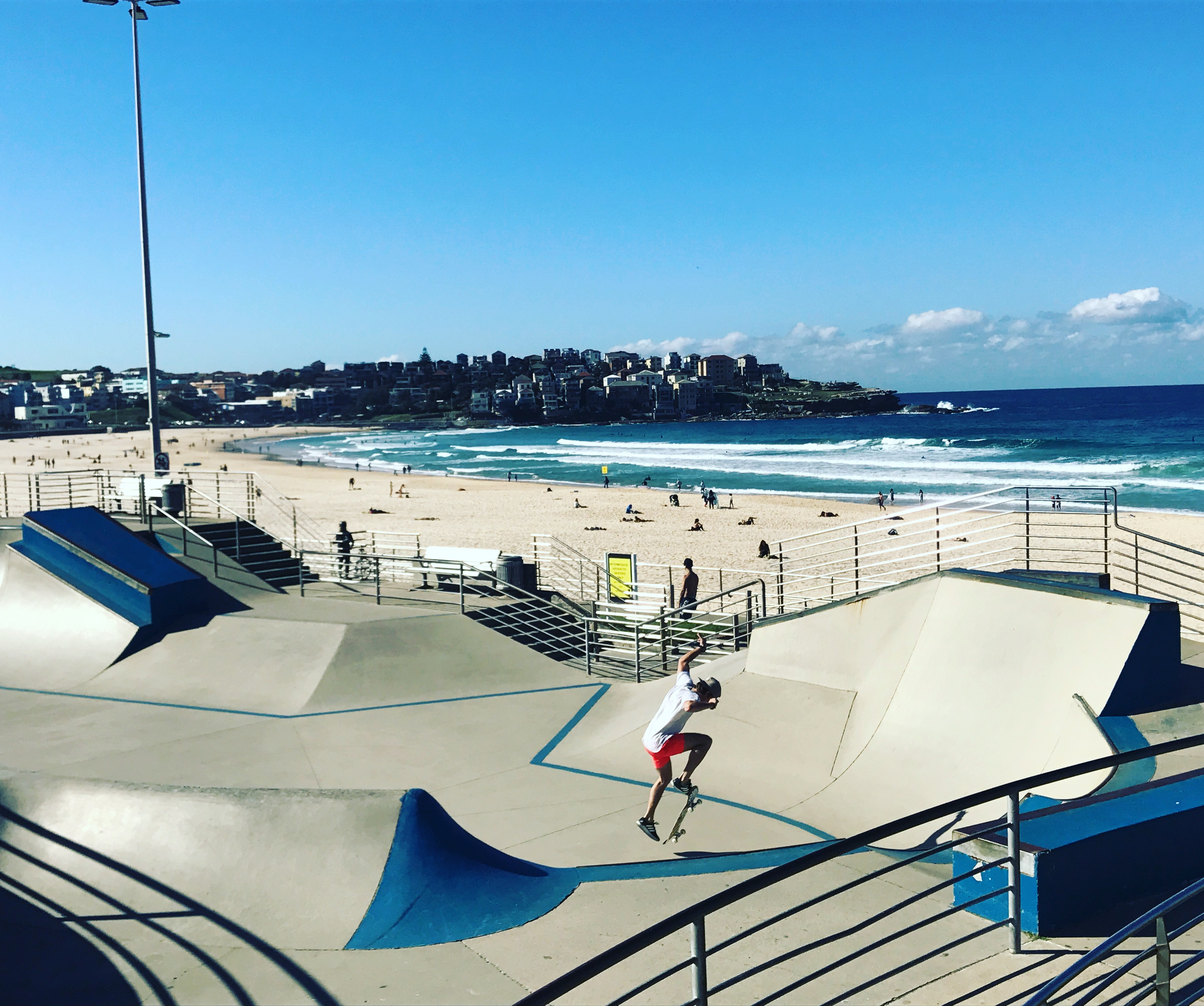 bondi beach skate park